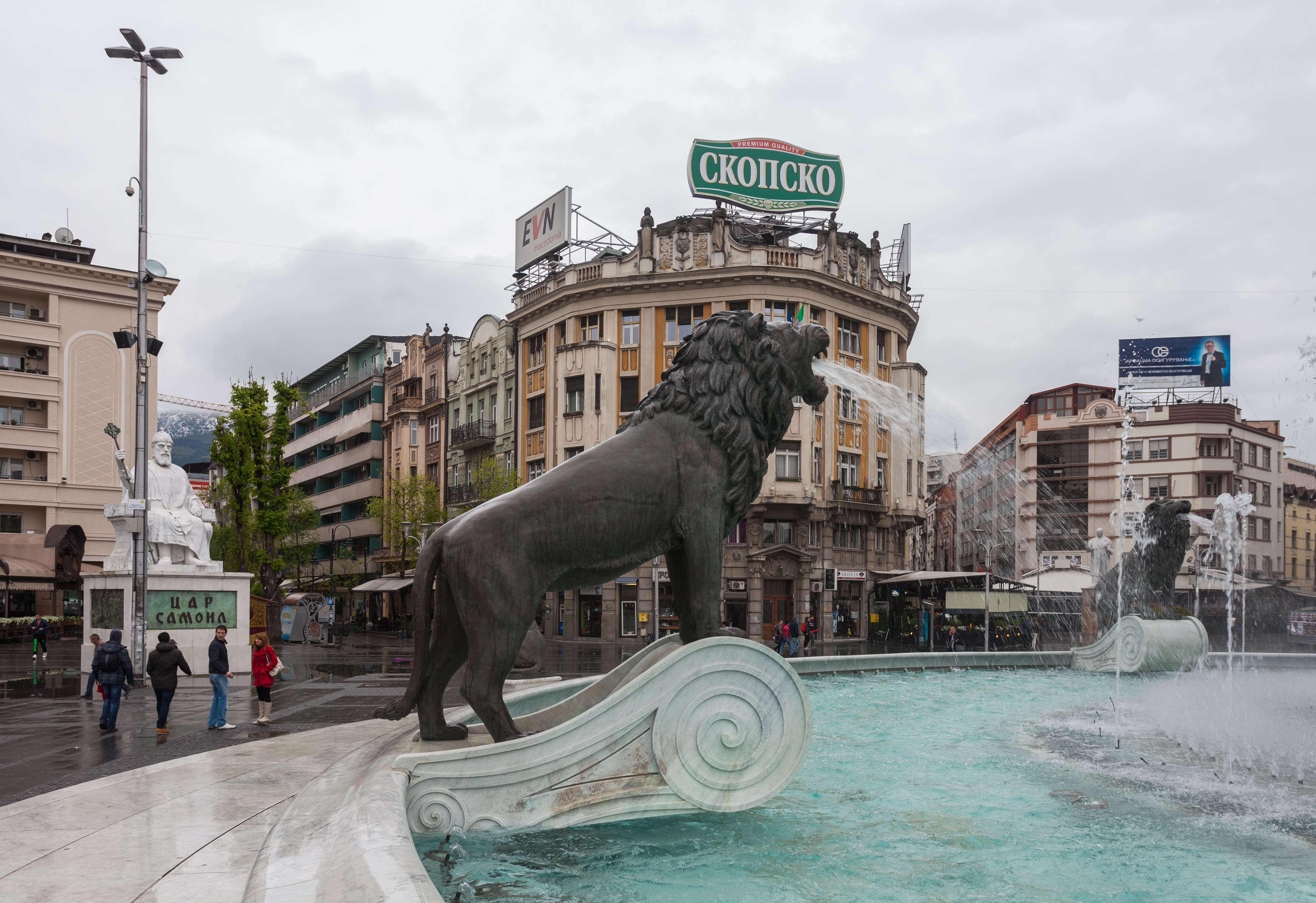 Macedonia Square, Skopje, Republic of Macedonia